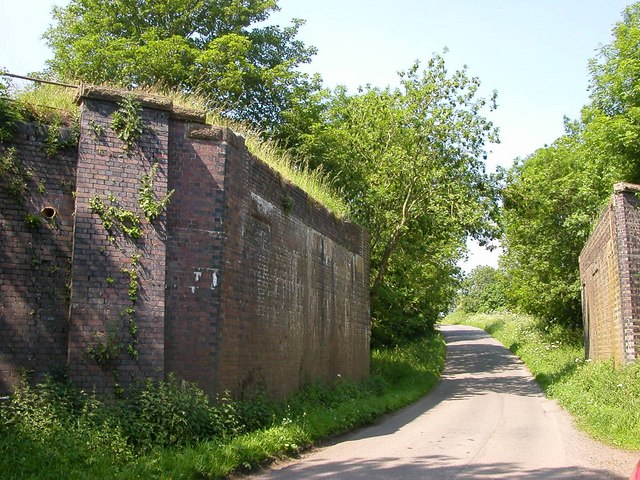 Eydon, Northamptonshire: abutments of dismantled Great Central Main Line bridge that spanned the minor road to Canons Ashby.